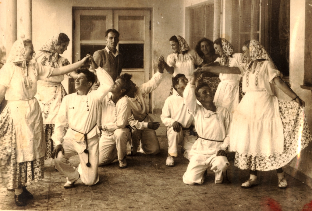 Kibbutz Givat Hashlosha , Entertainment